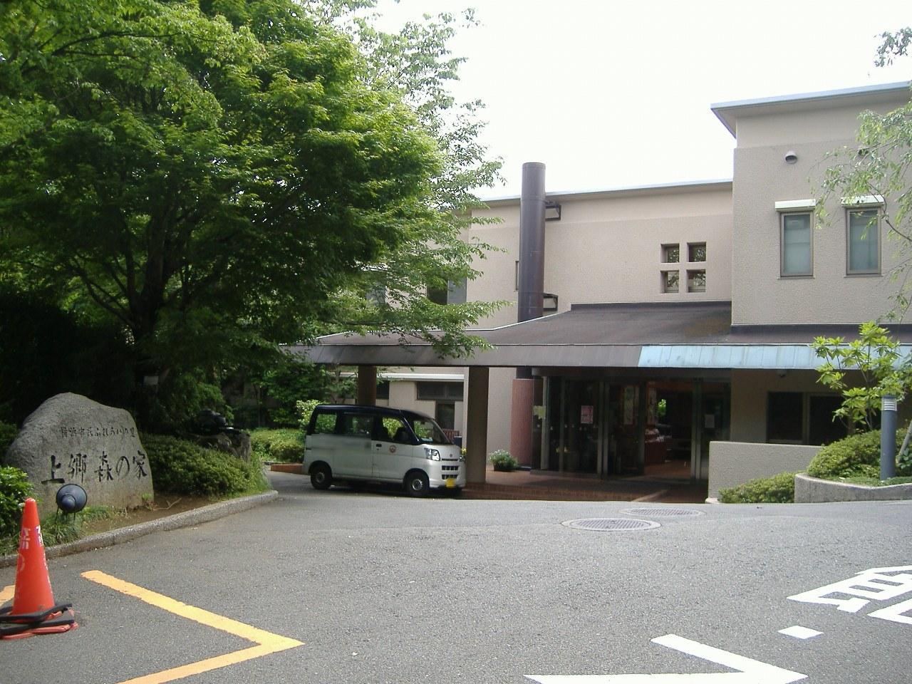 Hotel "kamigou-morinoie" (Yokohama, Japan)